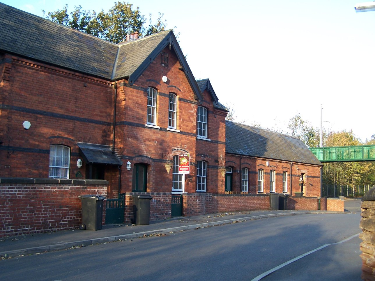 Author: Tina Cordon, Source: Own Picture Tina Cordon 16:15, 4 January 2007 (UTC)